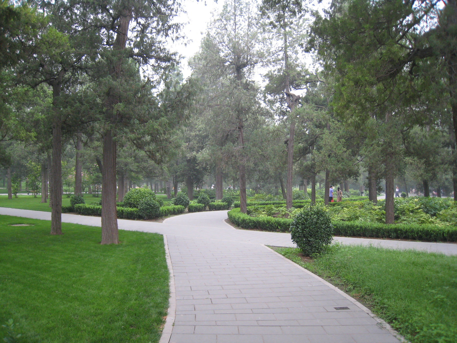 A walk through JingShan Park. [August 2007]